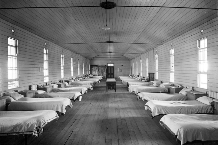 View of Benevolent Asylum, Dunwich, North Stradbroke Island. (This photograph shows the interior of a dormitory.)